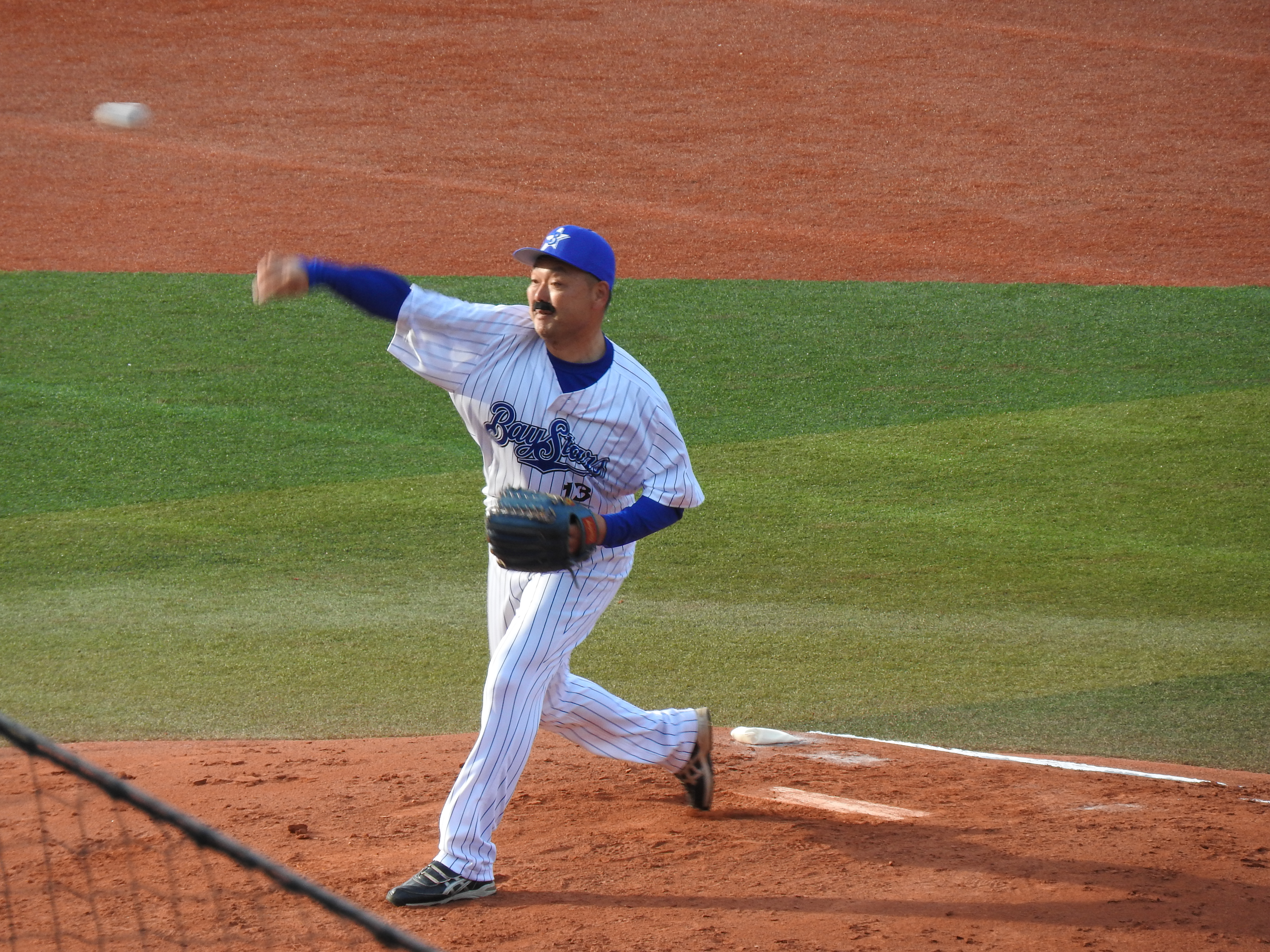 baseball player